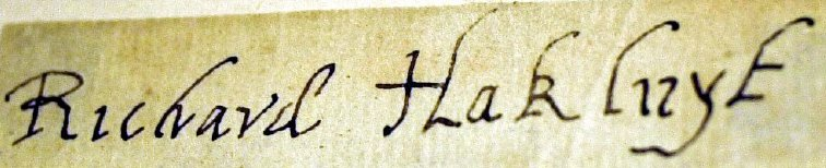 Closeup of Richard Hakluyt's manuscript signature from the front flyleaf of his work The Principall Navigations, Voiages, and Discoveries of the English Nation : Made by Sea or Over Land to the Most Remote and Farthest Distant Quarters of the Earth at Any Time within the Compasse of These 1500 Years : Divided into Three Several Parts According to the Positions of the Regions Whereunto They Were Directed; the First Containing the Personall Travels of the English unto Indæa, Syria, Arabia... the Second, Comprehending the Worthy Discoveries of the English Towards the North and Northeast by Sea, as of Lapland... the Third and Last, Including the English Valiant Attempts in Searching Almost all the Corners of the Vaste and New World of America... Whereunto is Added the Last Most Renowned English Navigation Round About the Whole Globe of the Earth (London: Imprinted by George Bishop and Ralph Newberie, deputies to Christopher Barker, printer to the Queen’s Most Excellent Majestie).